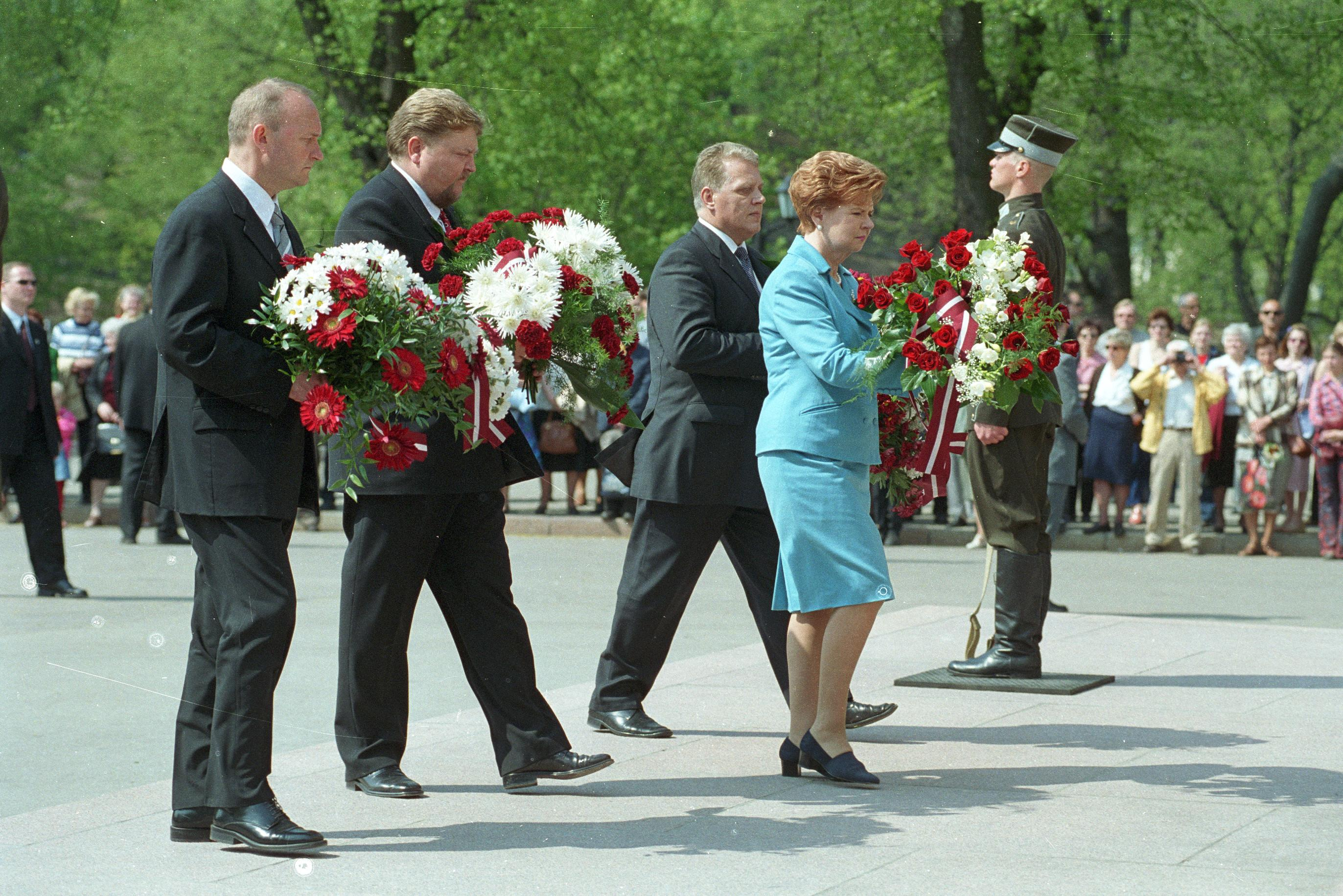 (From left to right): Indulis Bērziņš (then Minister of Foreign Affairs), Jānis Straume (then Speaker of Saeima), Vaira Vīķe-Freiberga (then President) and Andris Bērziņš (then Prime Minister) put flowers at the Freedom Monument during 4th of May celebrations.